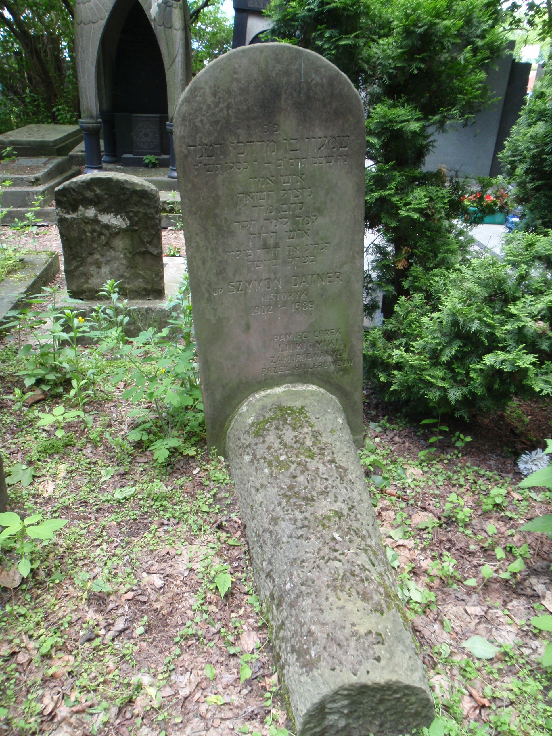 Grave of Szymon Datner - historian